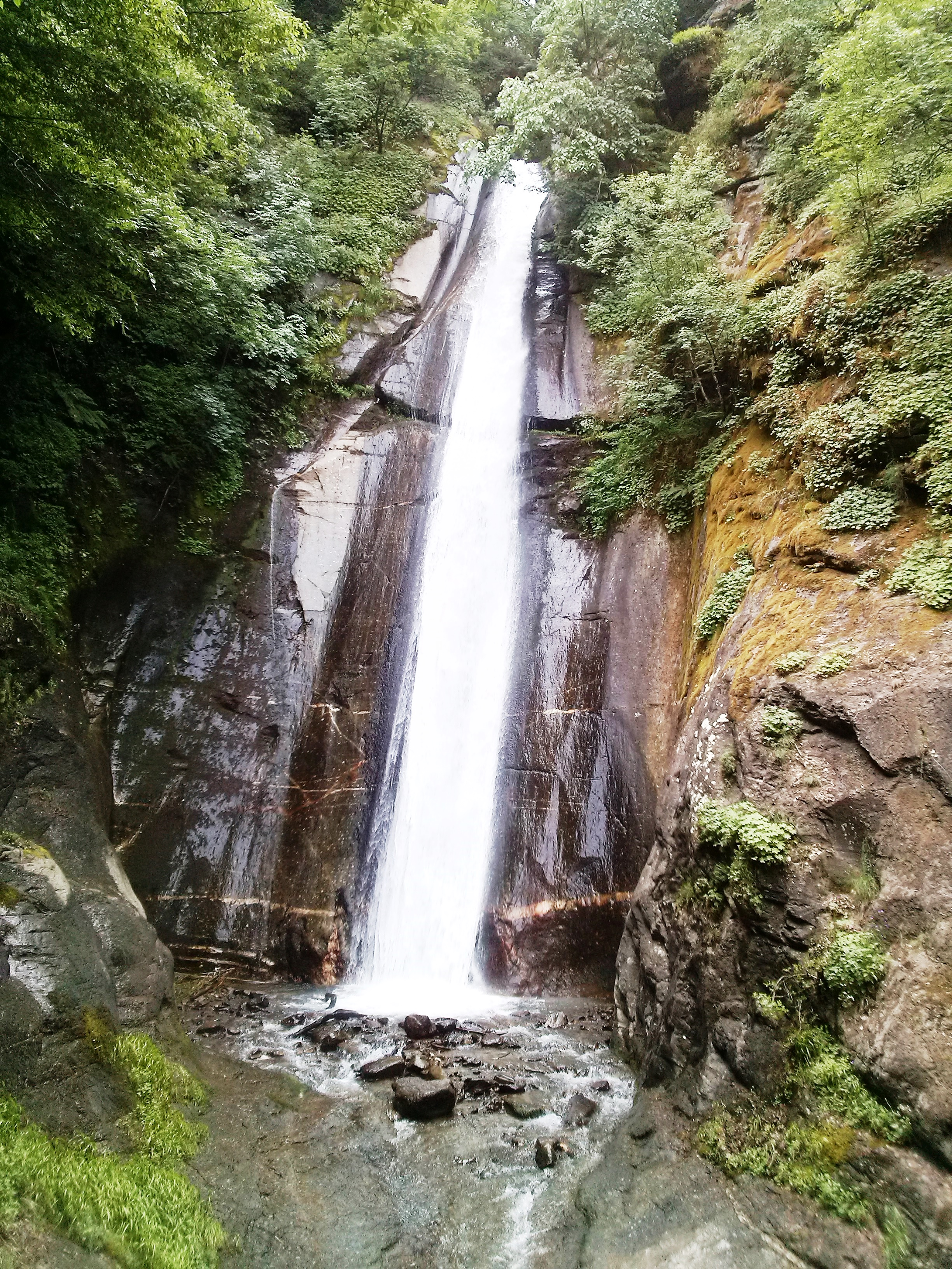 Smolare waterfall. The highest waterfall in Macedonia, with height of 39.5 m